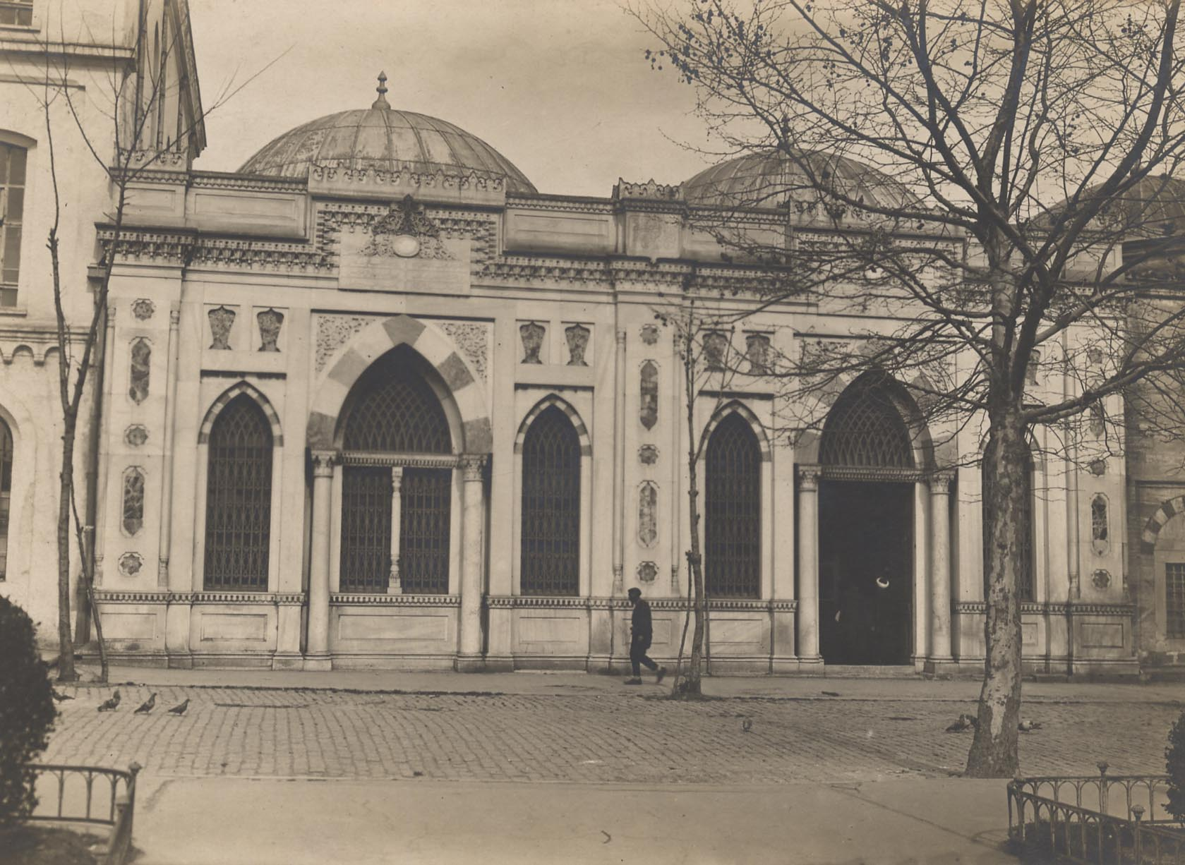 Beyazıt Devlet Kütüphanesi